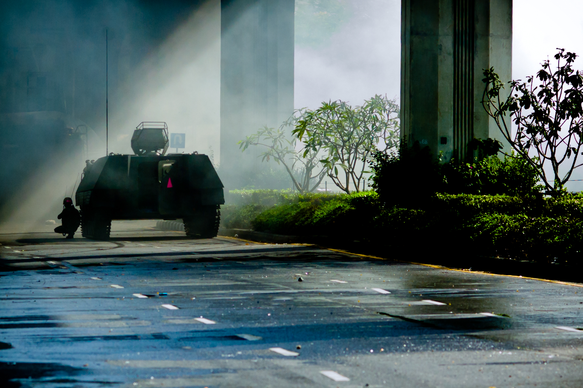 A Type-85 AFV reconoiters the Red Shirt barricade at Chulalongkorn Hospital, accompanied by a Signal Corps soldier with a portable radio unit.